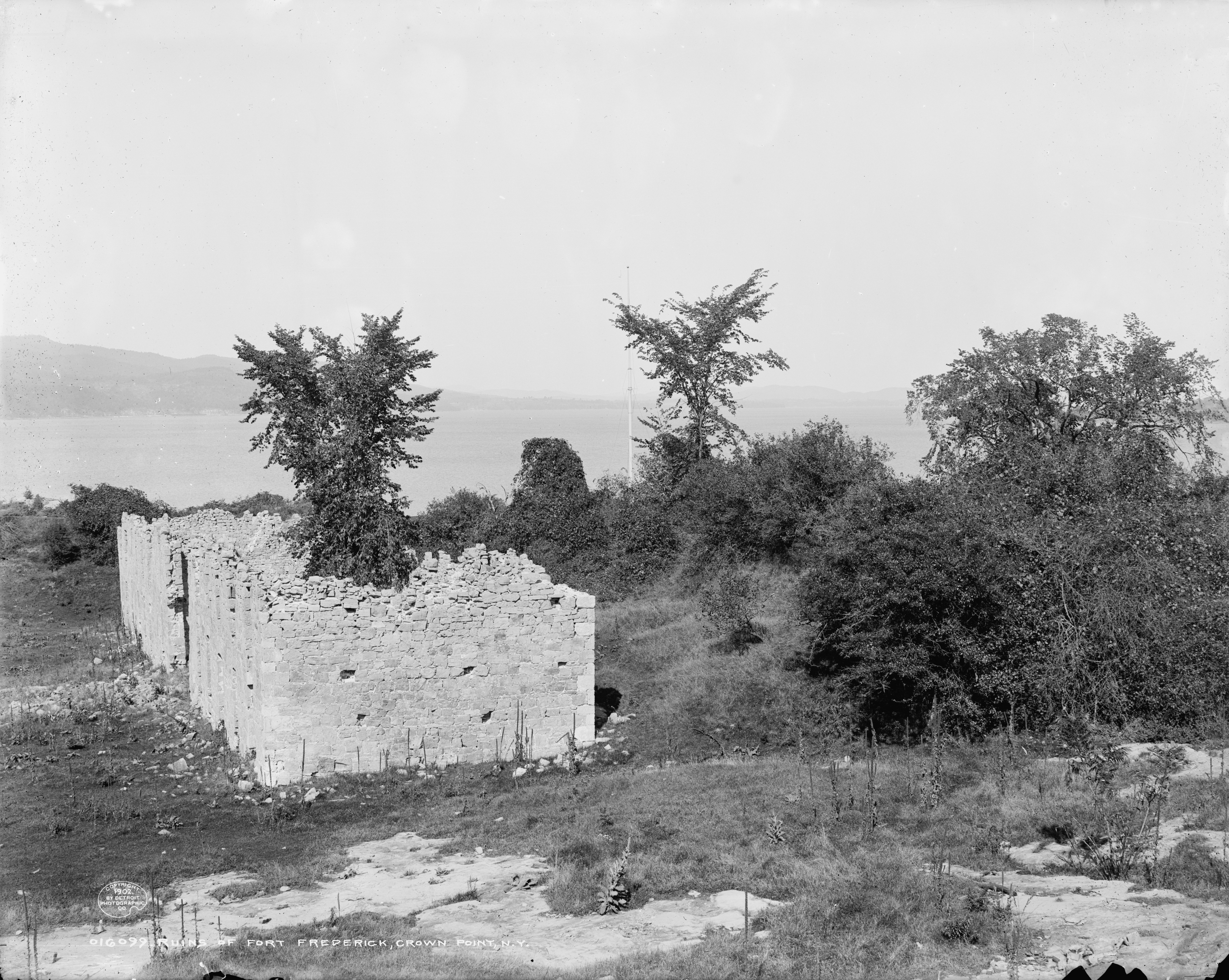 Ruins, incorrectly described as being of Fort Frederick, Crown Point, N.Y. They are ruins of Fort Crown Point.